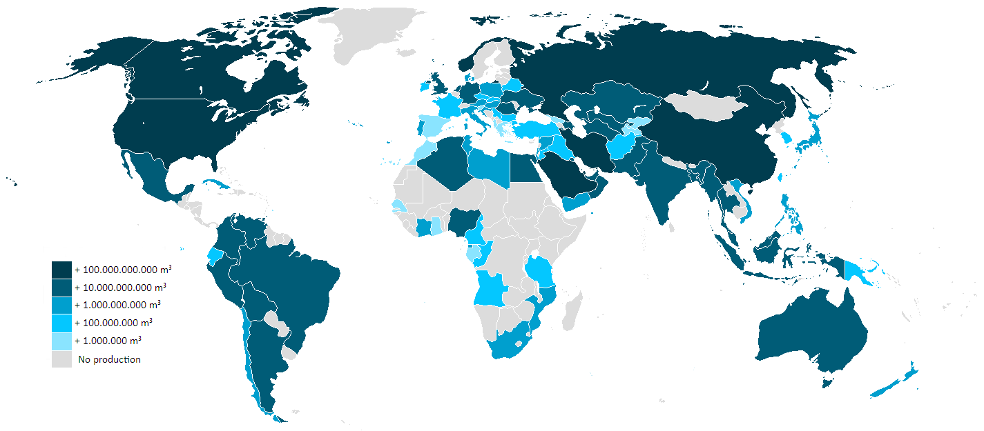 Natural Gas Production of Countries by CIA World Factbook.